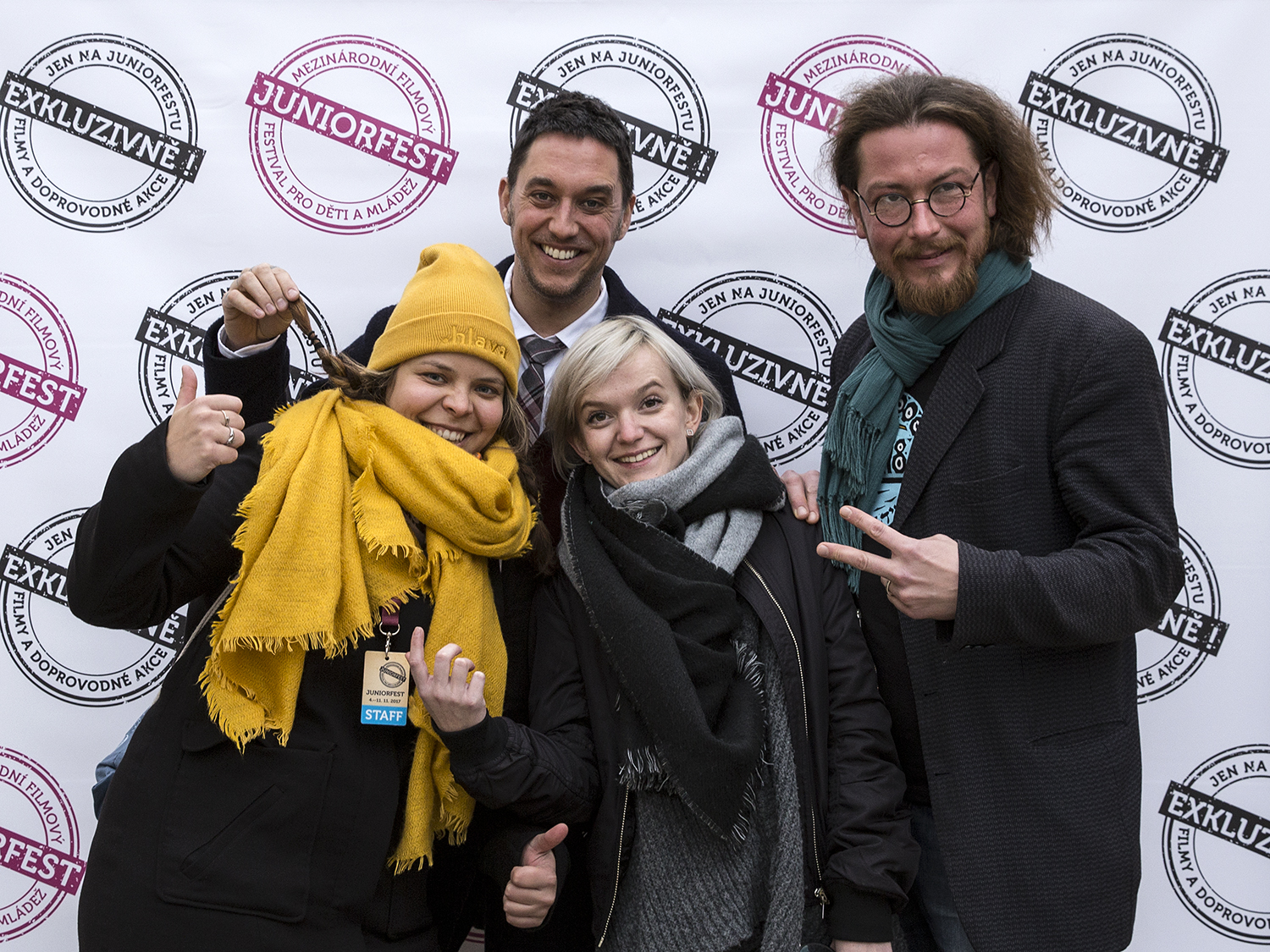 Ondrej Beranek as member of Juniorfest 2017 festival jury